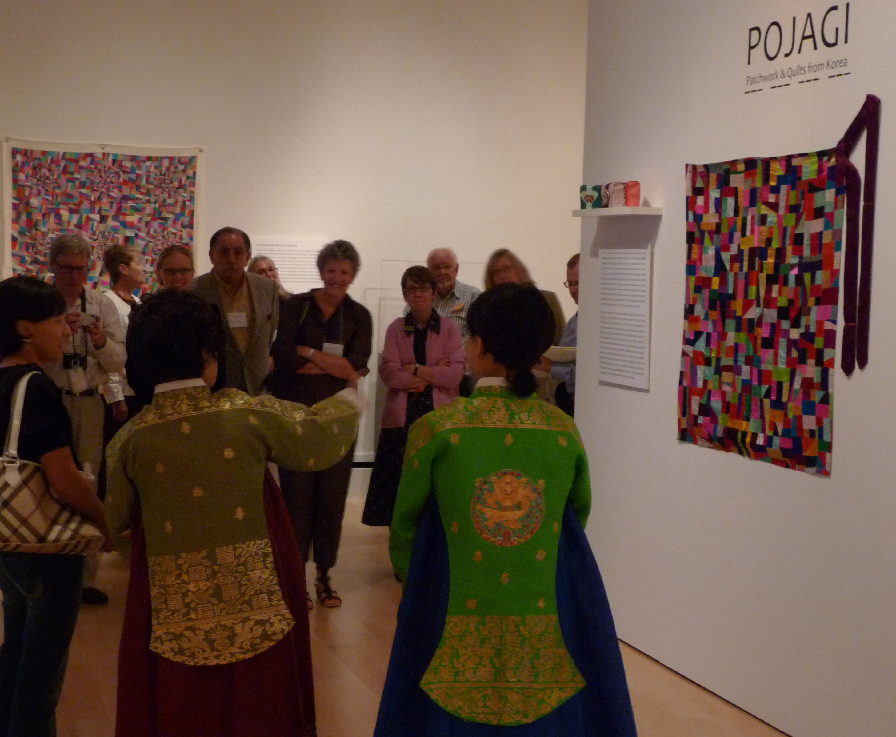 Gallery of the International Quilt Study Center & Museum during the exhibition of Korean Pojagi patchwork and textiles from the collection of Soon-Hee Kim of Korea.